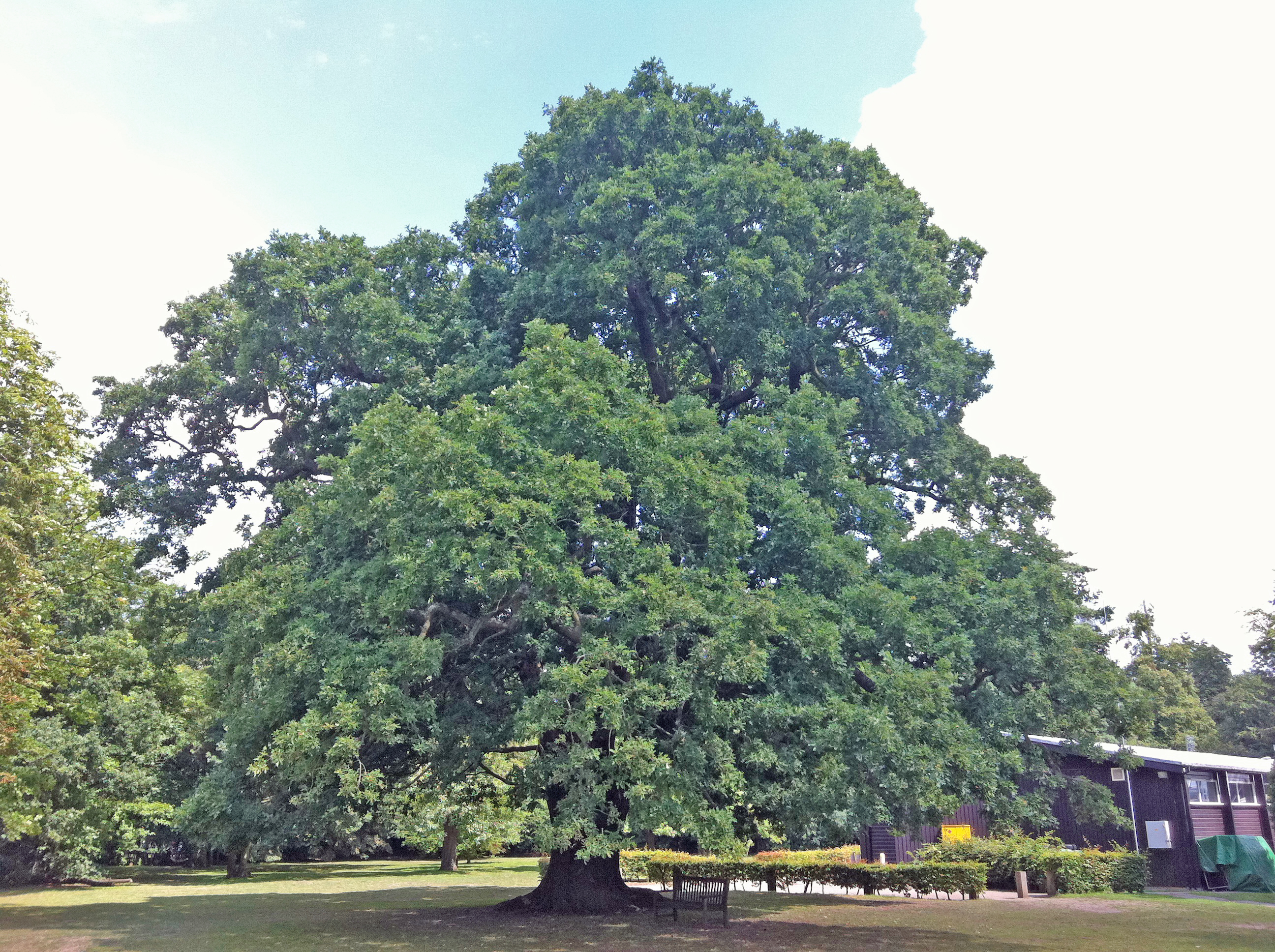 The mighty Gilwell Oak, dated at about 500 years old